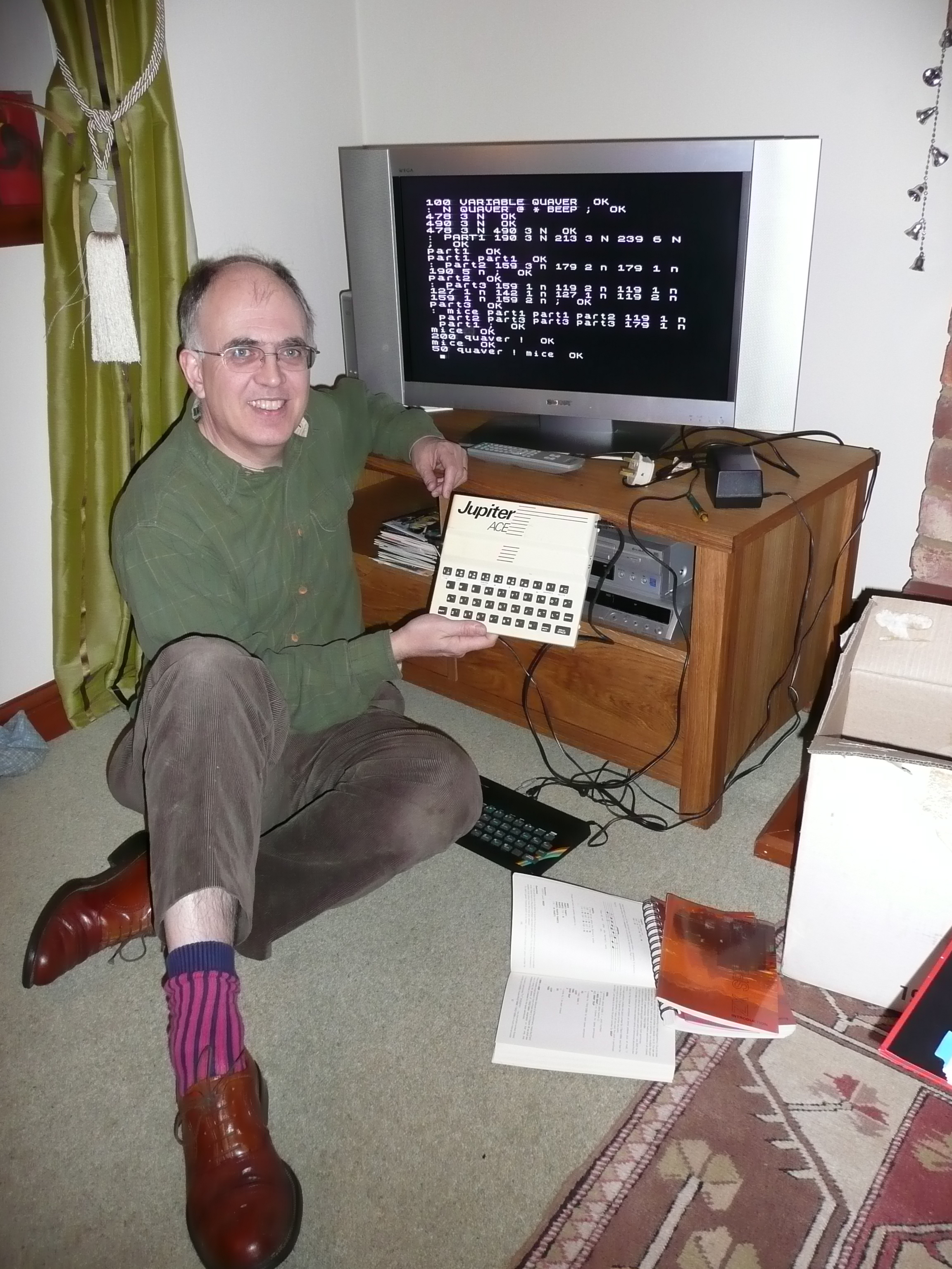 Steve Vickers and the Jupiter ACE